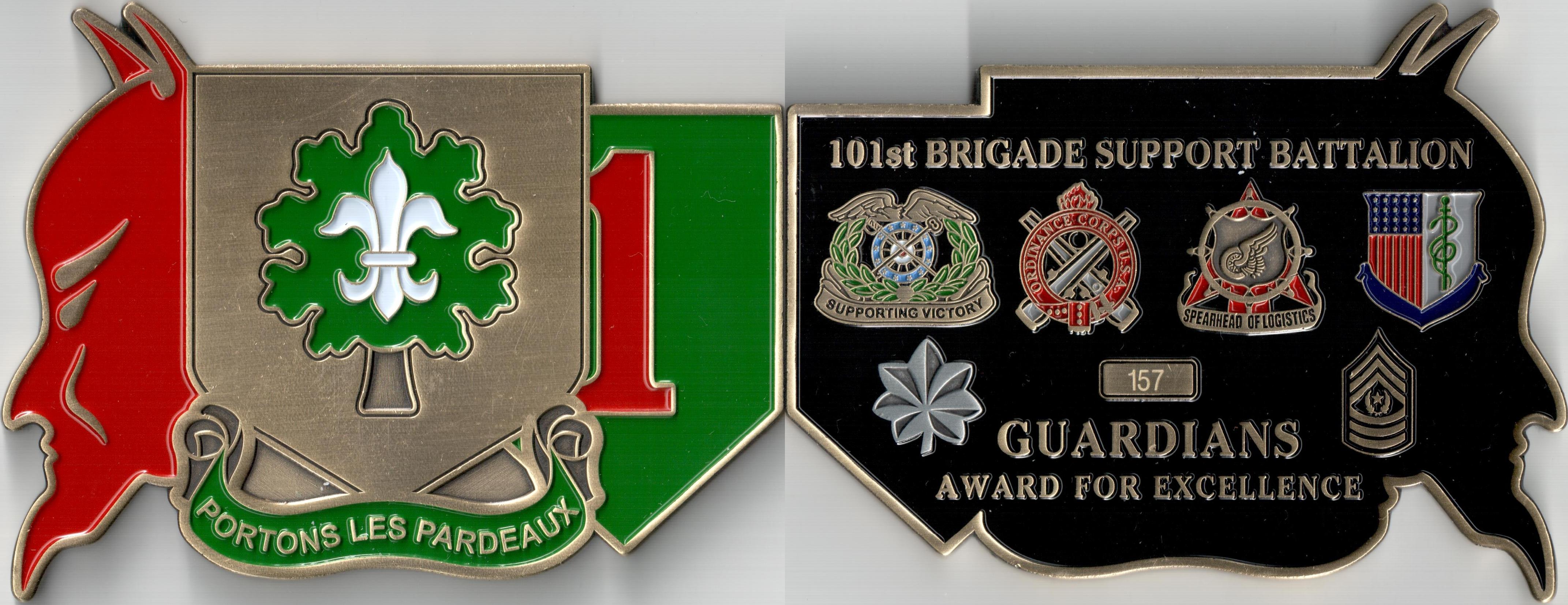 Challenge coin 101st Brigade Support Battalion „Guardians”